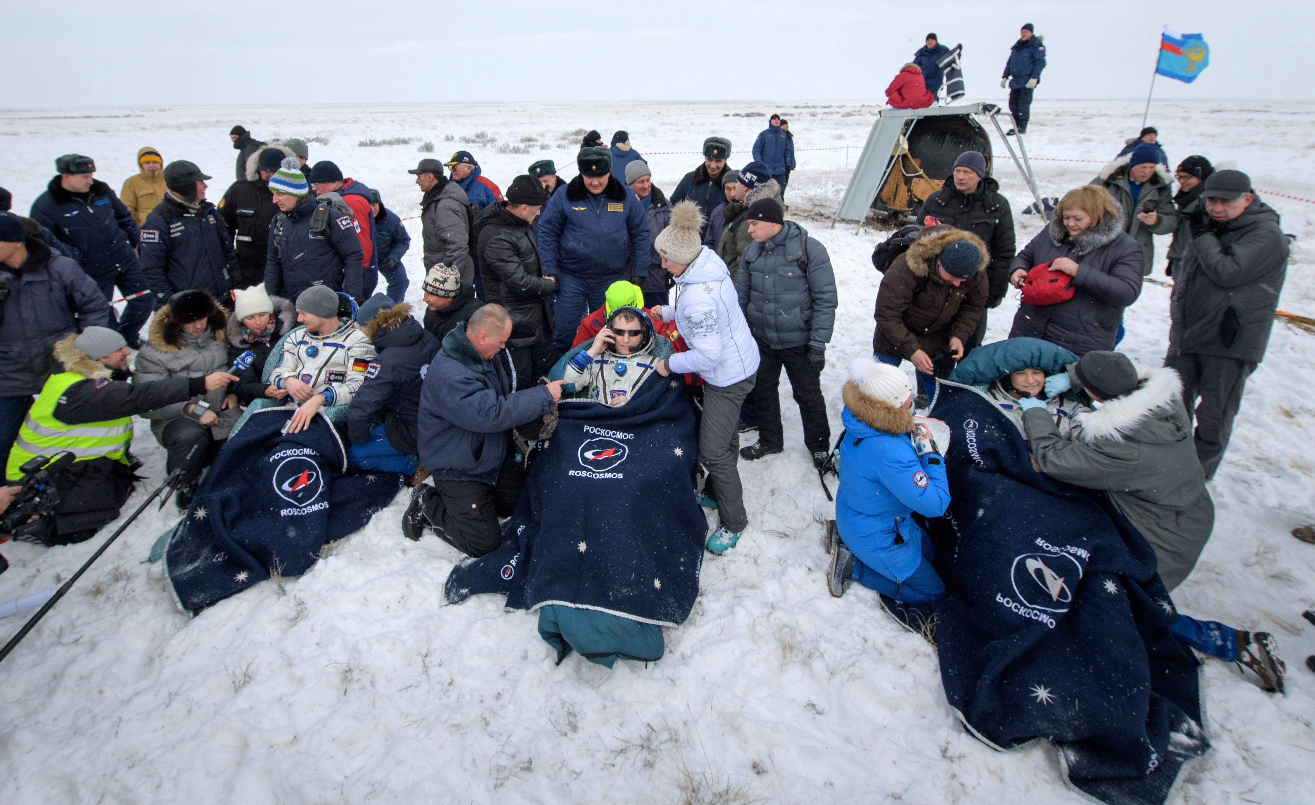 Expedition 57 crew members Alexander Gerst of ESA (European Space Agency), left, Sergey Prokopyev of Roscosmos, center, and Serena Auñón-Chancellor of NASA sit in chairs outside the Soyuz MS-09 spacecraft after they landed in a remote area near the town of Zhezkazgan, Kazakhstan on Thursday, Dec. 20, 2018. Auñón-Chancellor, Gerst, and Prokopyev are returning after 197 days in space where they served as members of the Expedition 56 and 57 crews onboard the International Space Station.